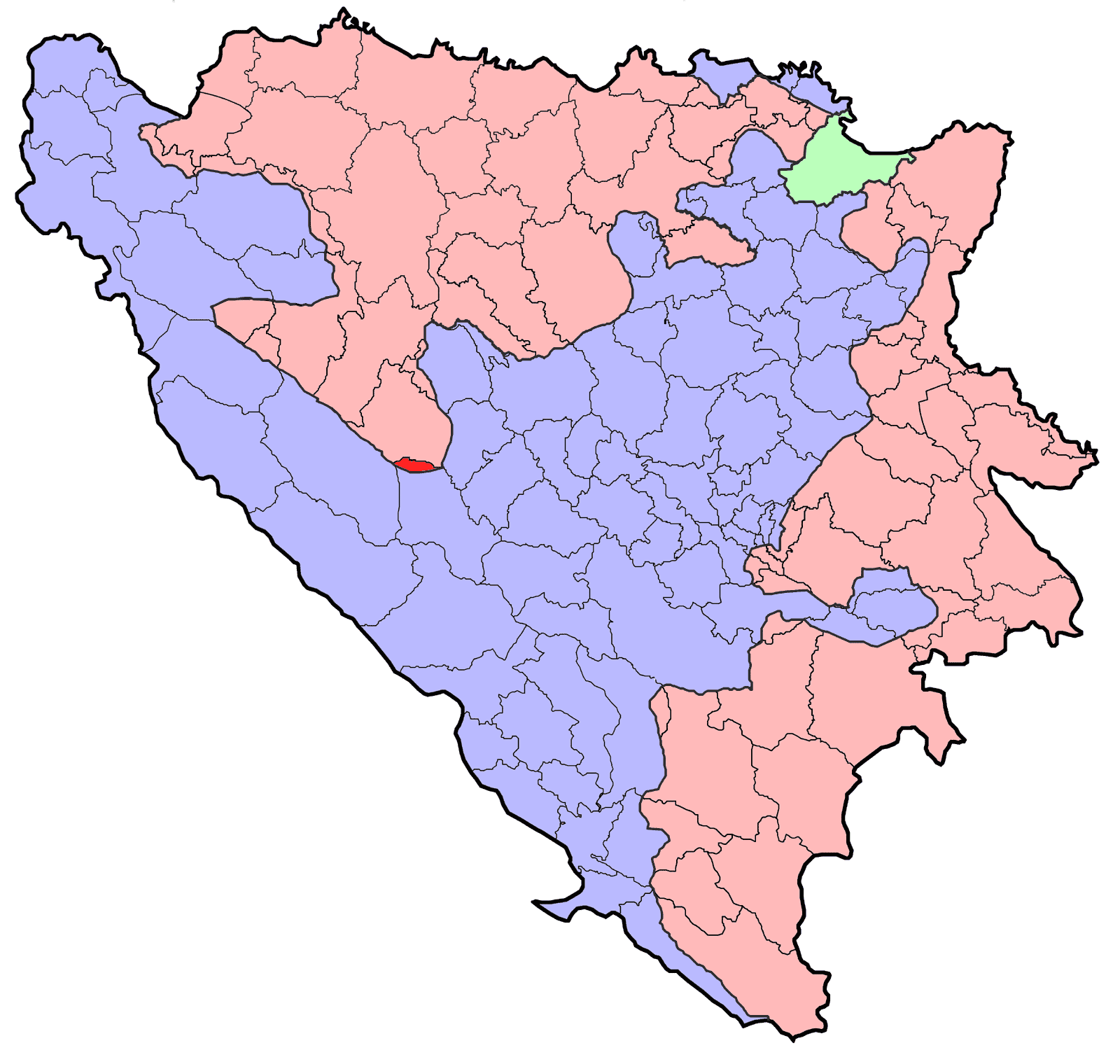 Location of Kupres (RS) municipality in Bosnia and Herzegovina.